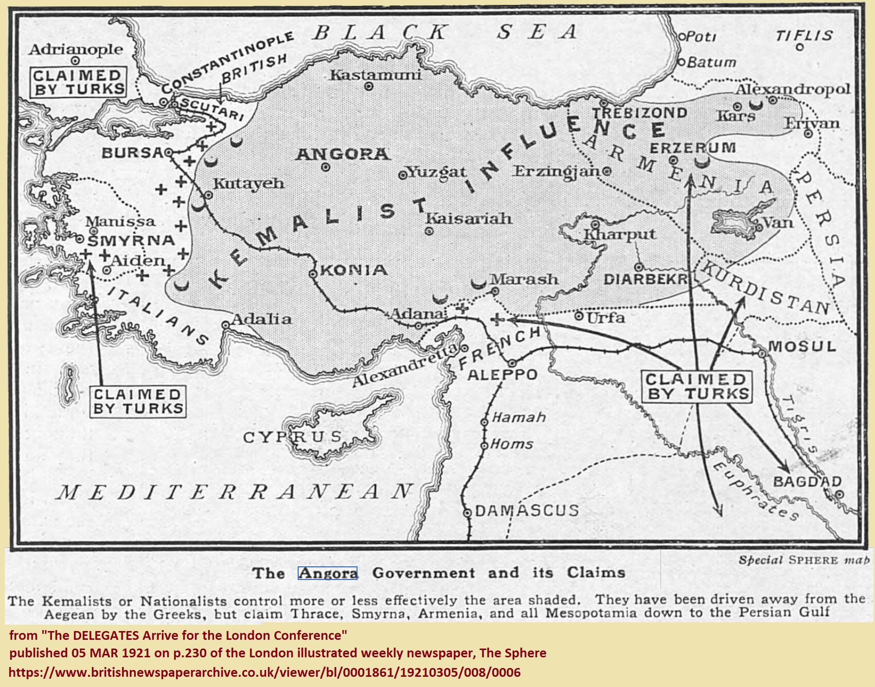 The map published by The Sphere on 1-5 March 1921: "The Angora Government and its Claims" "The Kemalists or Nationalists control more or less effectively the area shaded. They have been driven away from the Aegean by the Greeks, but claim Thrace, Smyrna, Armenia, and all Mesopotamia down to the Persian Gulf" The term "Kemalist" comes from Kemal. Well, who was Kemal?Kemal Atatürk (or alternatively written as Kamâl Atatürk, Mustafa Kemal Pasha until 1934, commonly referred to as Mustafa Kemal Atatürk; 1881 – 10 November 1938) was a Turkish field marshal, revolutionary statesman, author, and the founding father of the Republic of Turkey, serving as its first President from 1923 until his death in 1938. He undertook sweeping progressive reforms, which modernized Turkey into a secular, industrial nation. Ideologically a secularist and nationalist, his policies and theories became known as Kemalism. Due to his military and political accomplishments, Atatürk is regarded as one of the most important political leaders of the 20th century.